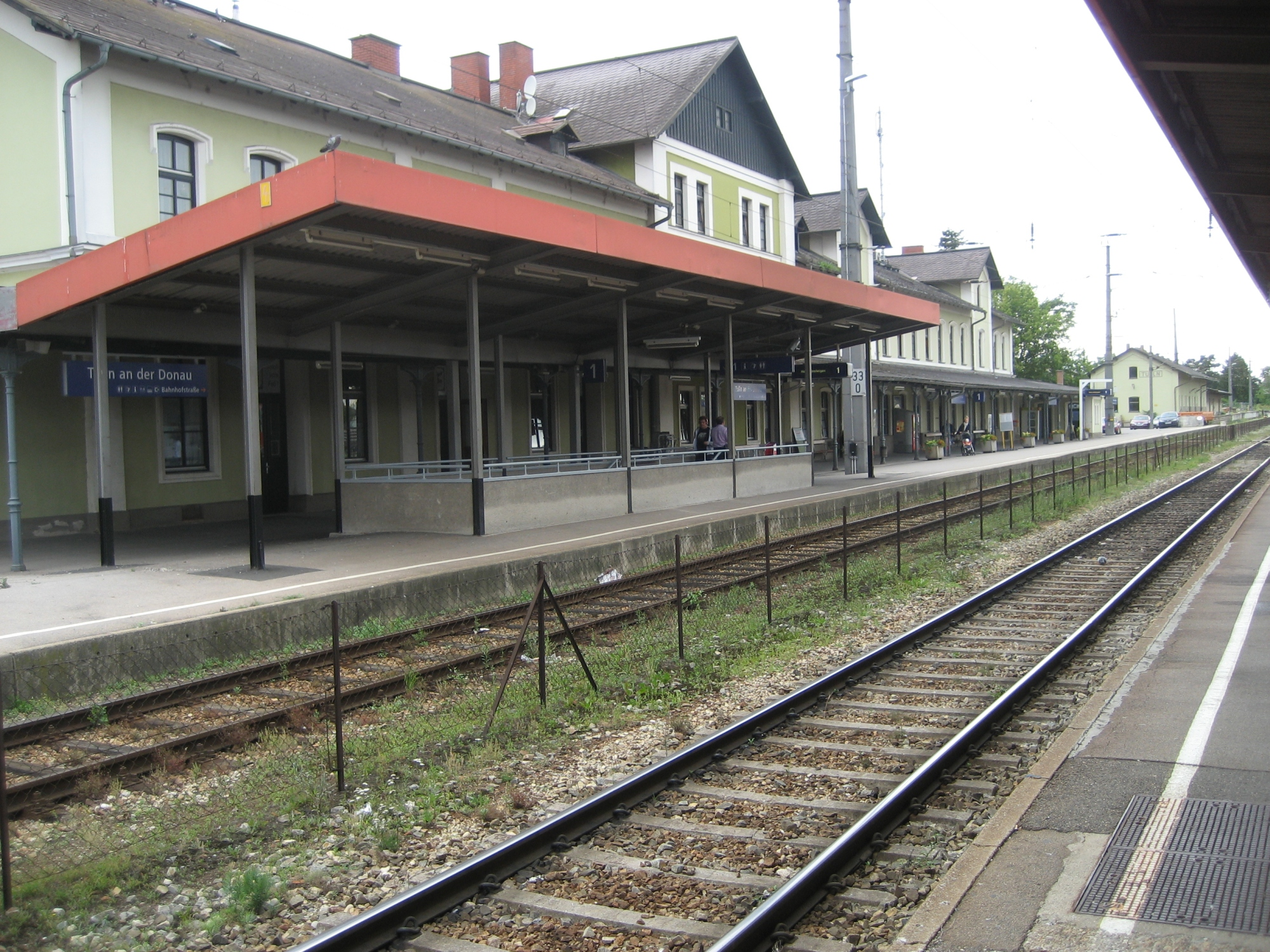 Train station Tulln, in Lower Austria